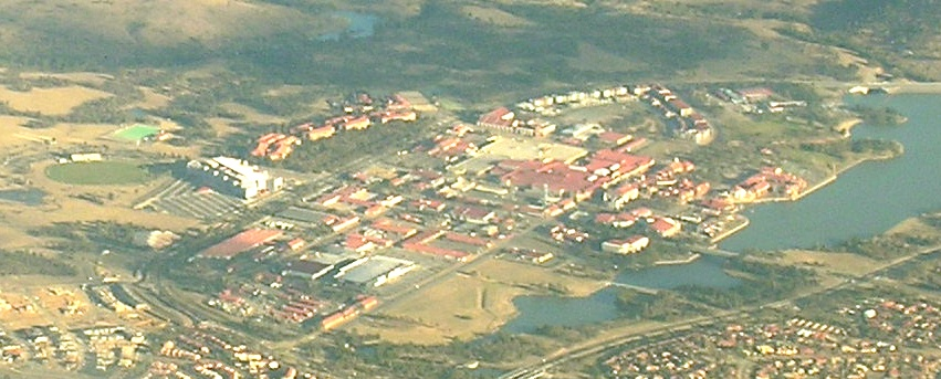 Aerial view from south east of the Tuggeranong town Centre